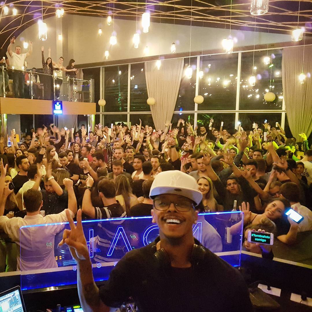 DJ Tom in Maringá Regional Airport